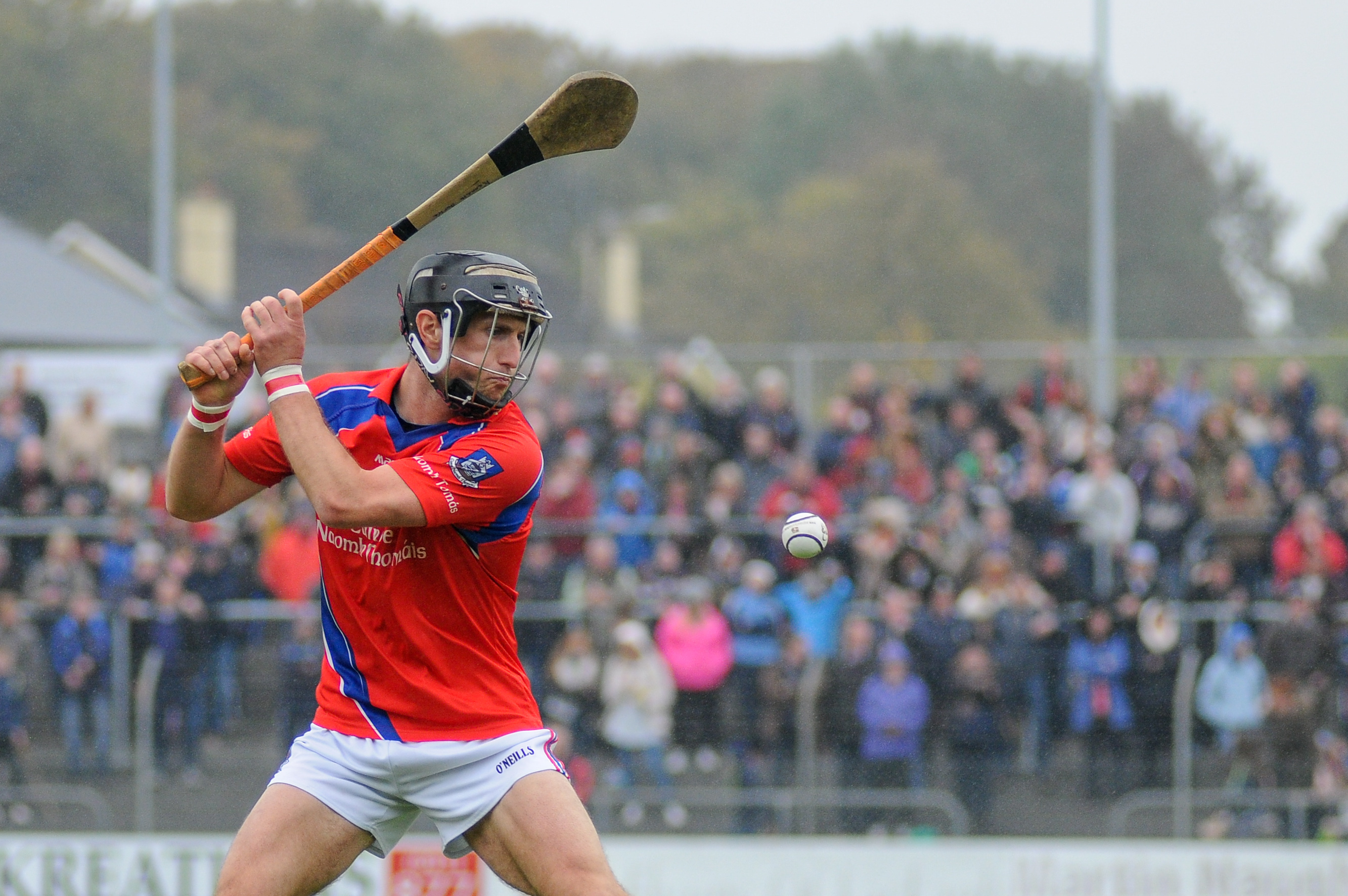 Kenneth Burke in action for St. Thomas' in the 2015 Galway Senior Hurling Championship quarterfinal replay against Loughrea in Kenny Park, Loughrea